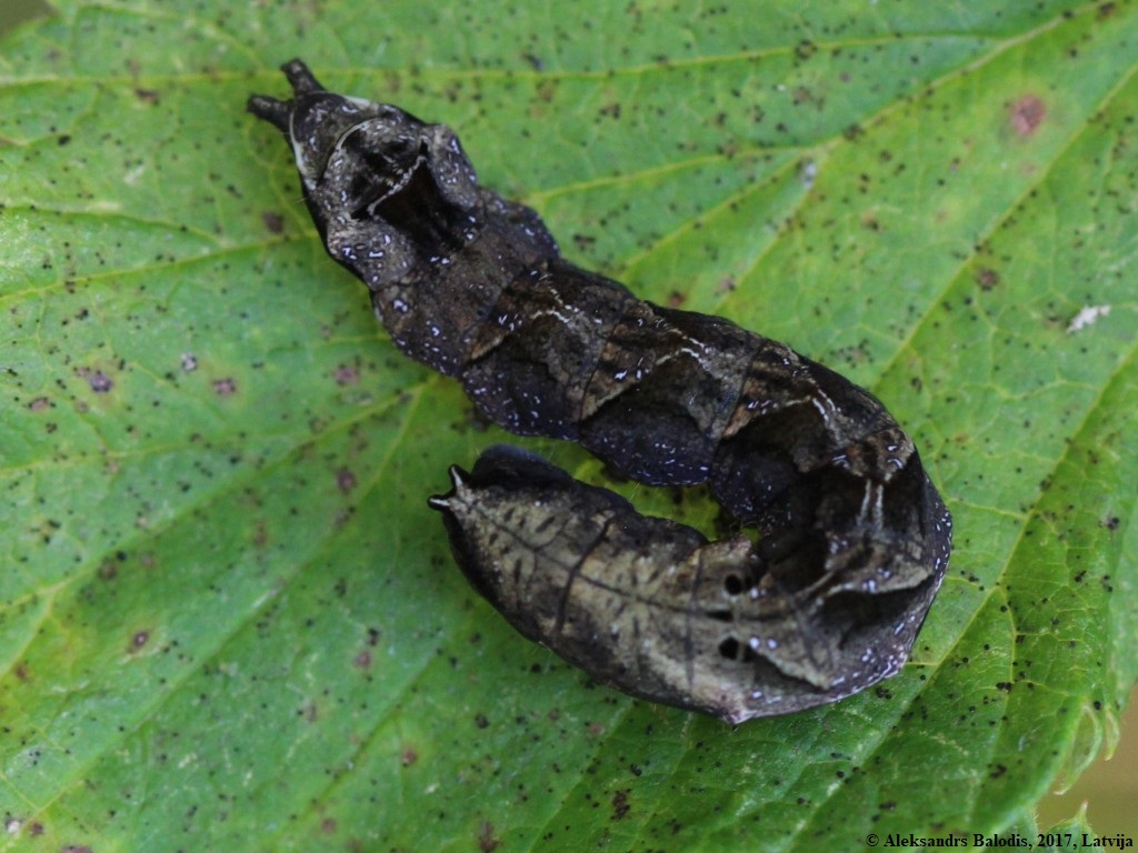 Thyatira batis